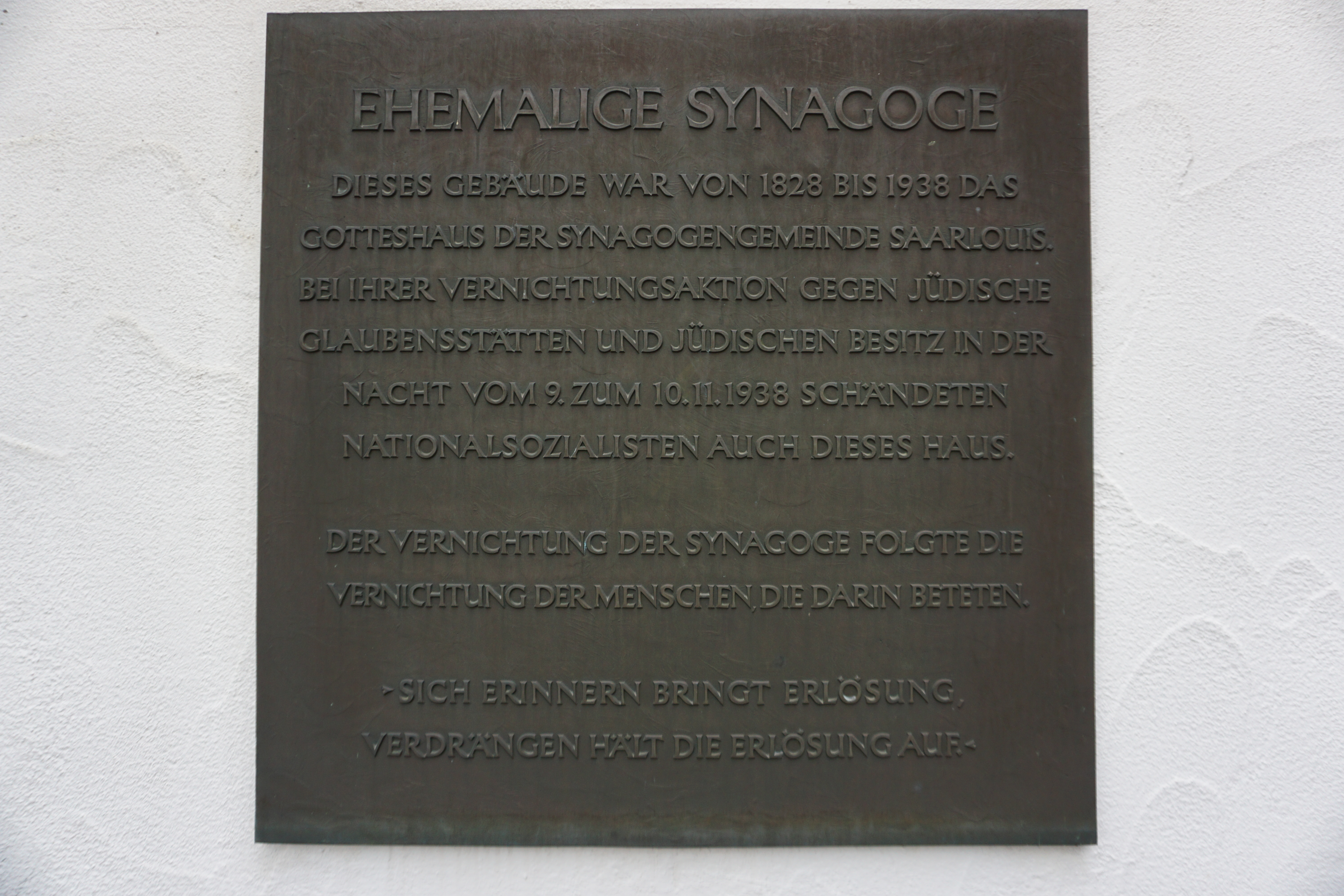 The memorial plaque was originally attached in 1979 to the former synagogue, which was demolished in 1983. Today it is located on the building erected in 1986/87 on the site of the former synagogue. The building is architecturally similar to the former synagogue.